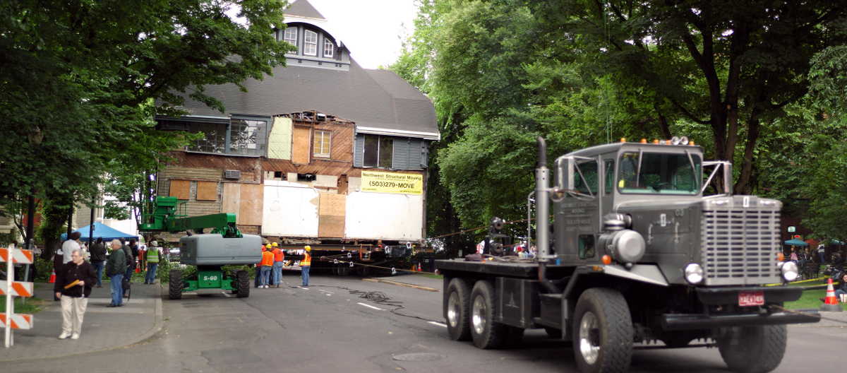 The Ladd Carriage House being pulled by a truck. Taken from Columbia street & Park.